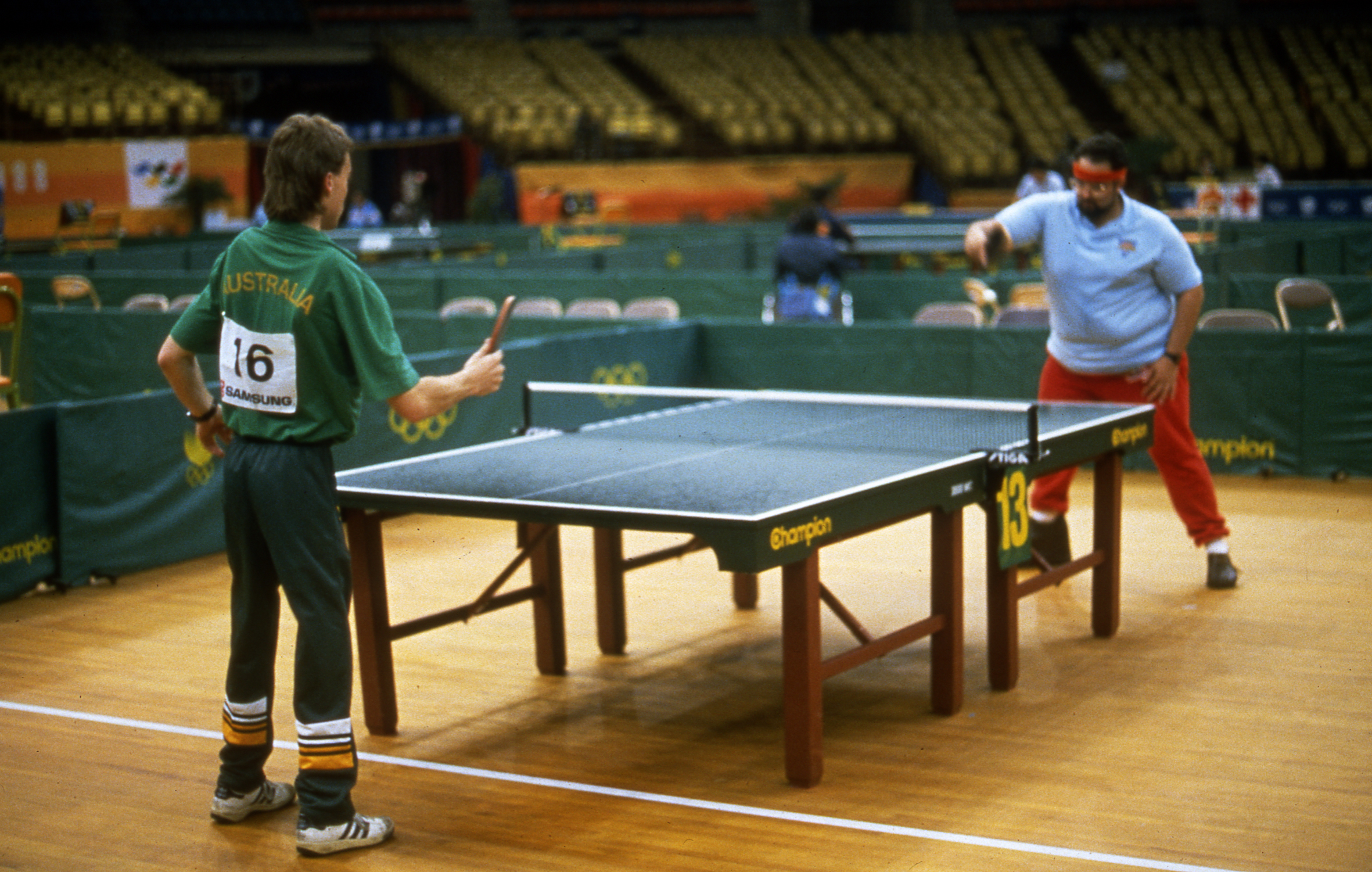 An Australian table tennis competitor practises with a player from another country at the 1988 Seoul Paralympic Games